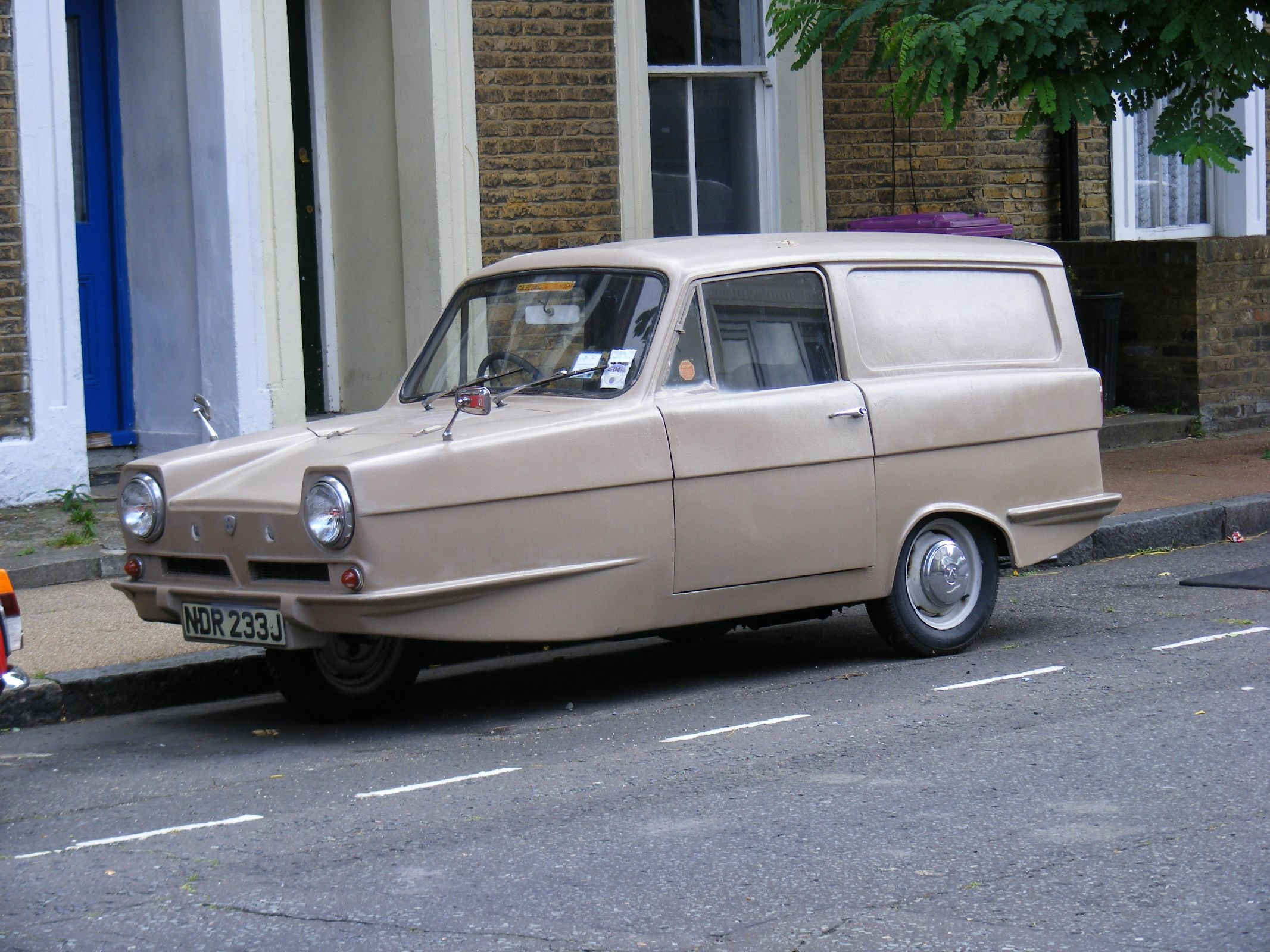 Fine Reliant Robin quite close to some equally fine stone cladding. More about the Supervans in this wonderful website. Beware, there is a sad ending. More about the Reliant robins here